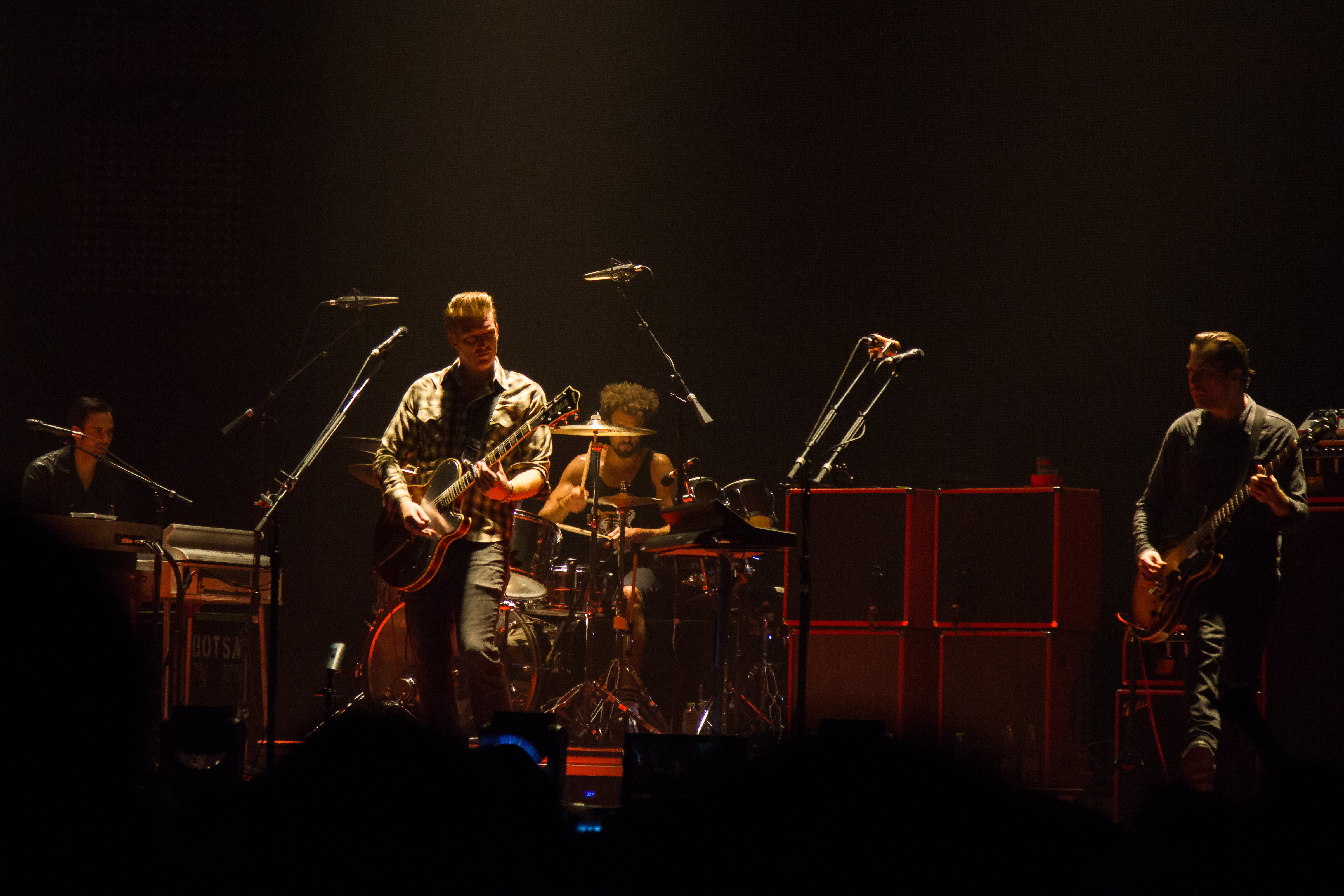 QOTSA performing, 2013